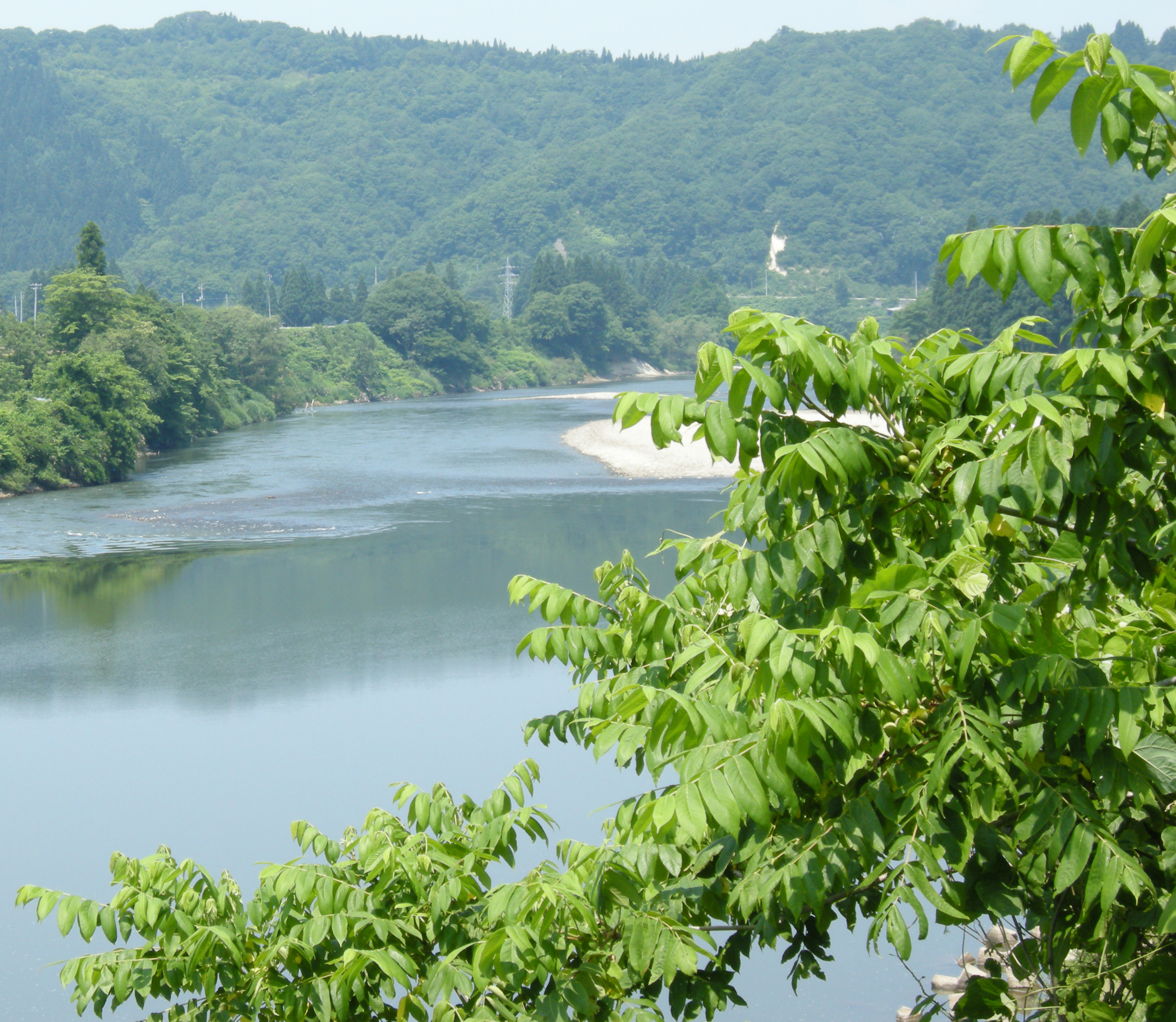 Juglans ailantifolia foliage, Mogami River, Yamagata, Japan